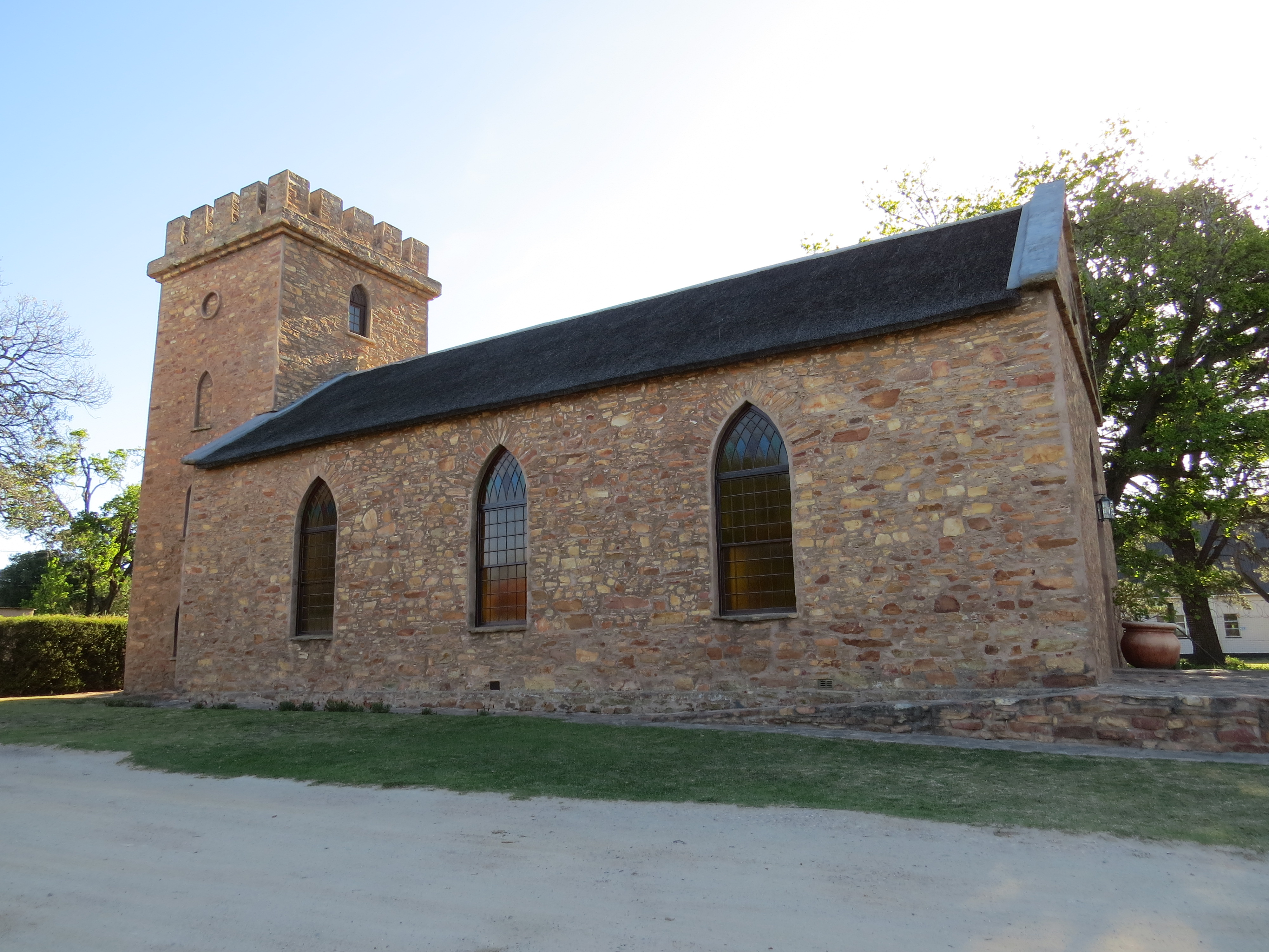 Church and church buildings, Pacaltsdorp This media shows a South African Protected Site with SAHRA file reference 9/2/030/0007.